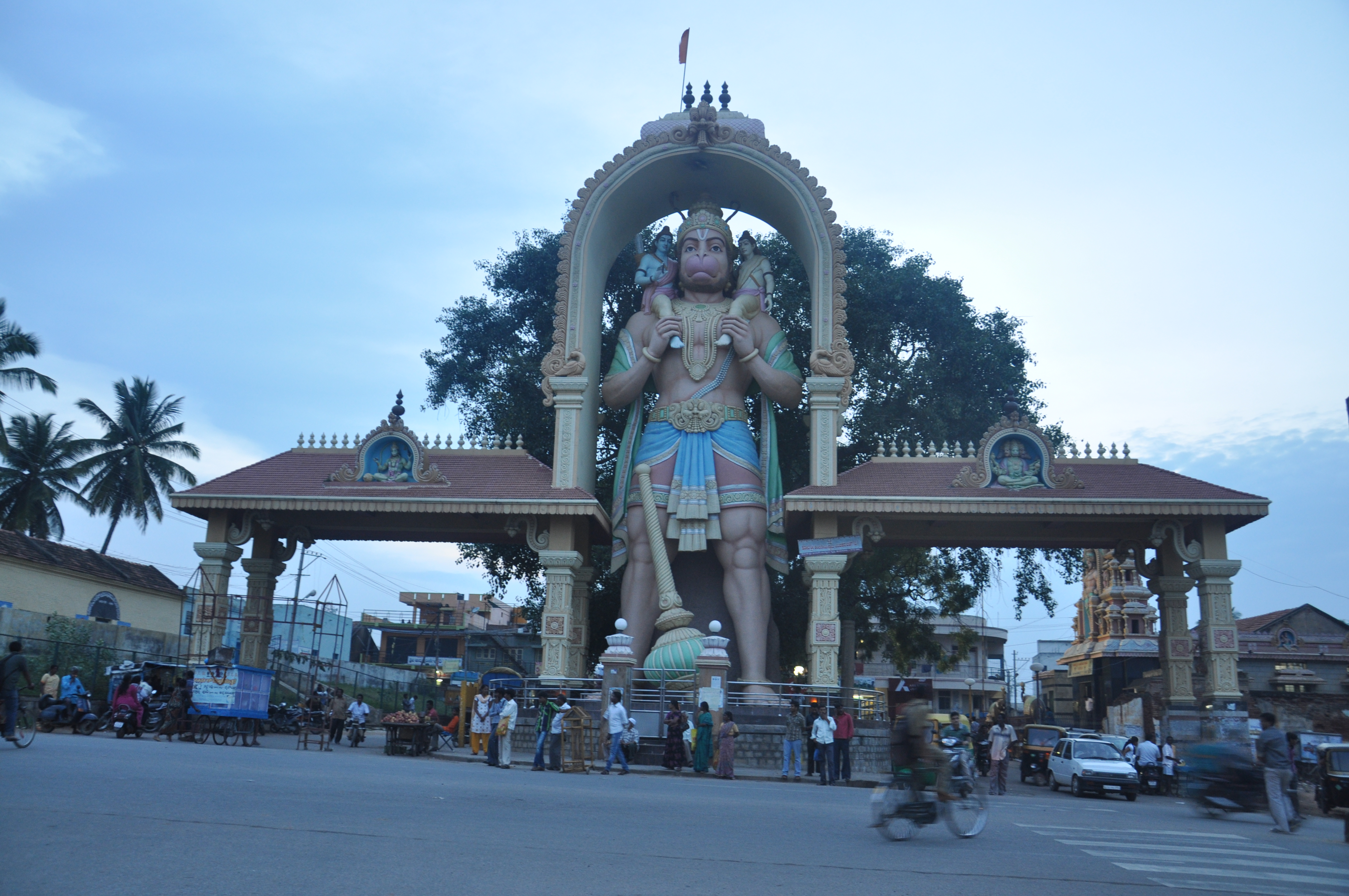 Hanuman Temple